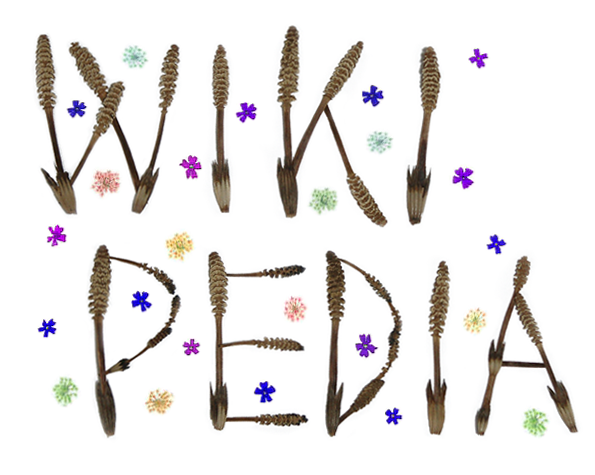 Wikipedia logo / pressed flowers (2D dried flowers) / Equisetum arvense